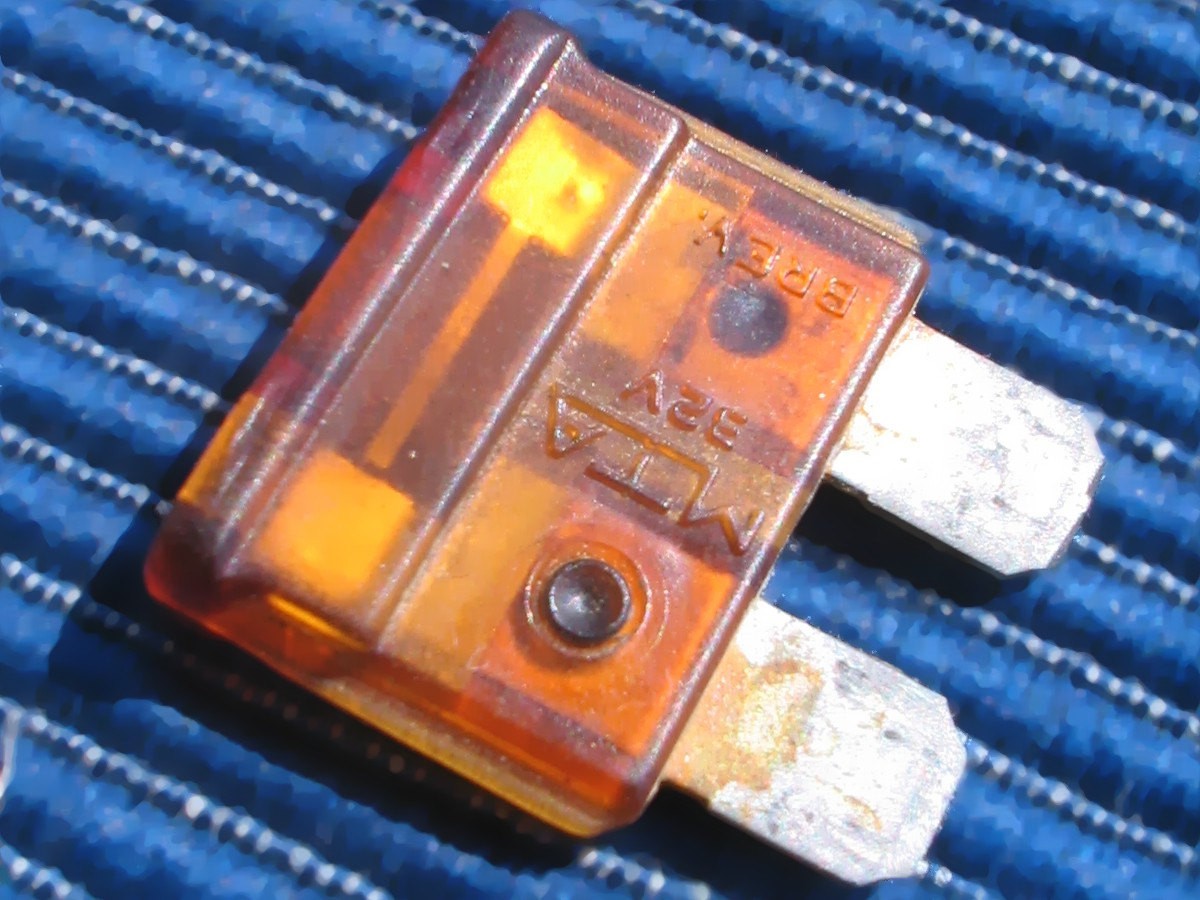 ATO type automotive fuse broken by vibration or forcing terminals.